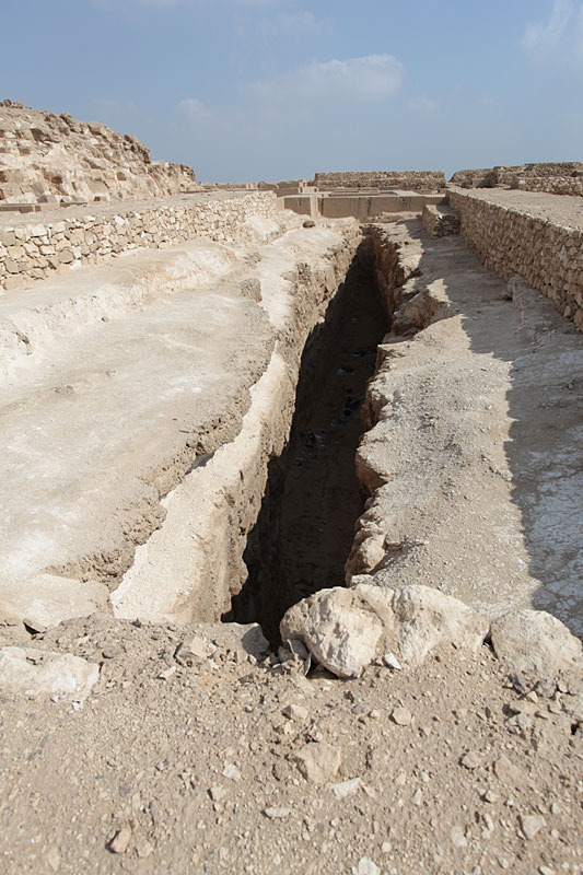 Boat pit, view to the north, Abu Rawash, Egypt